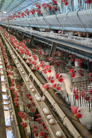 Hens in battery cages in Bastos, São Paulo, Brazil.